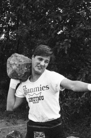 Photograph of the Finnish boxer Harri Piitulainen (1947–).